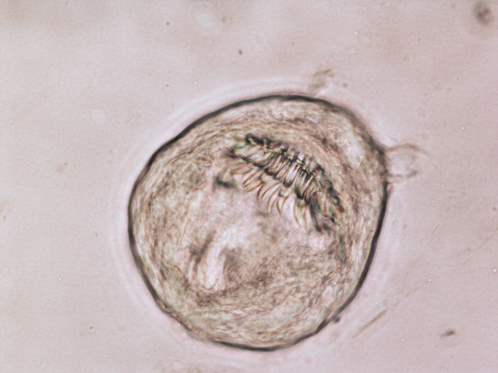 Protoscolex with well-developed hooks, arranged in 2 rows.